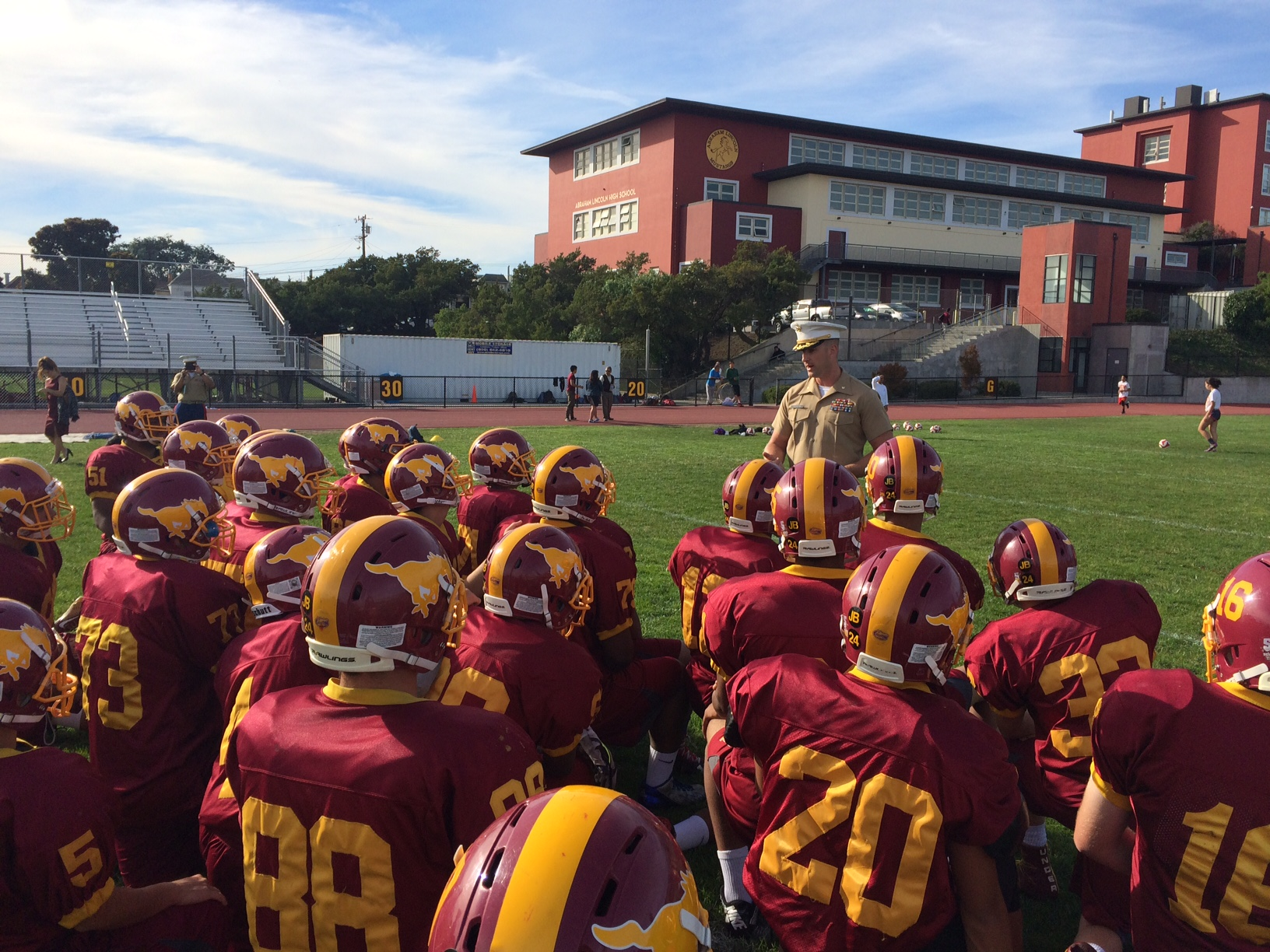 From the main website: "San Francisco - Major Jon Frerichs, Recruiting Station San Francisco Commanding Officer, gives a motivational speech to the Abraham Lincoln High School varsity football team. Frerichs spoke to the young men on the team about the importance of leadership in life."